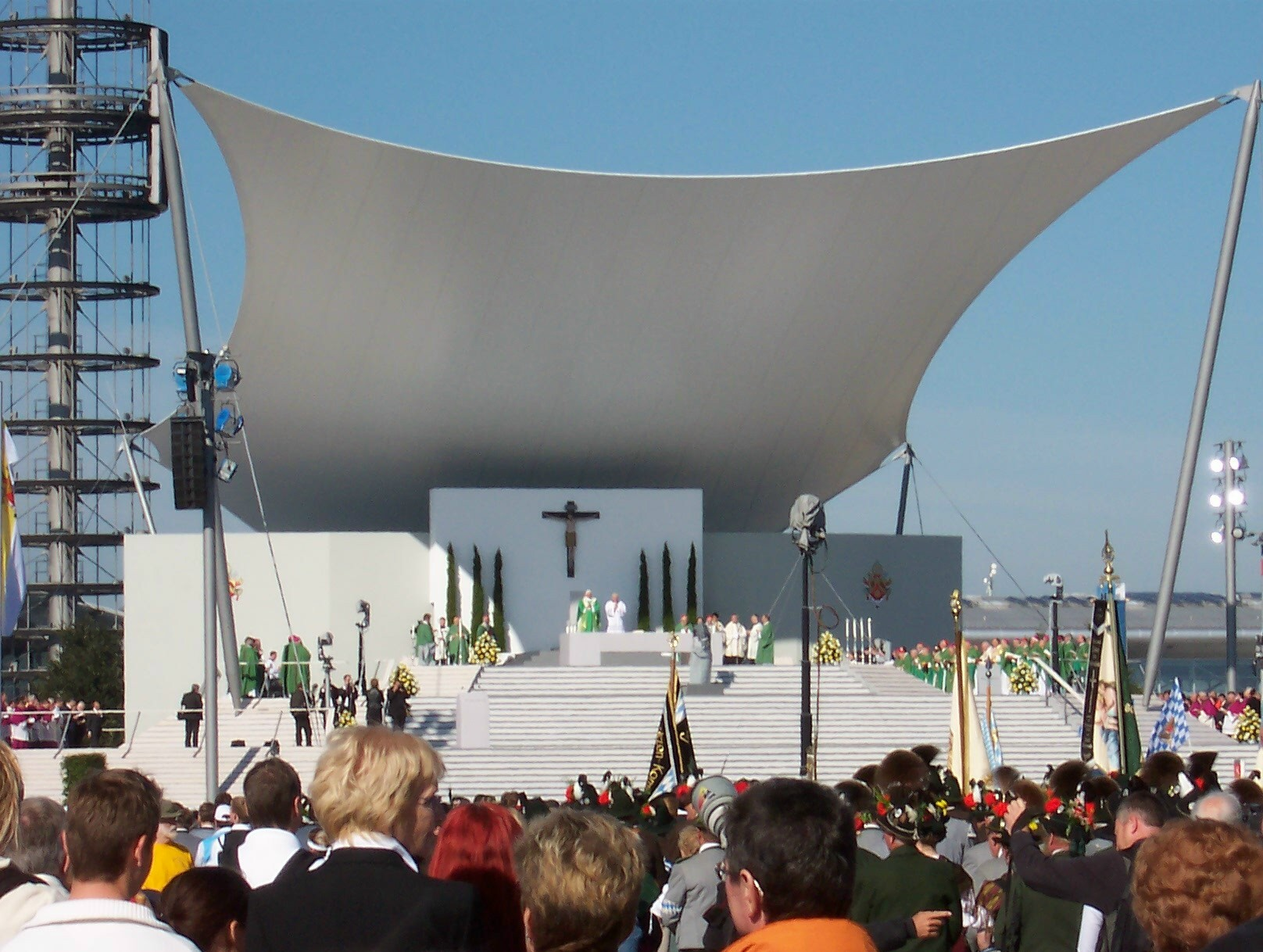 Pope Benedict XVI in Munich, Divine Service in Riem